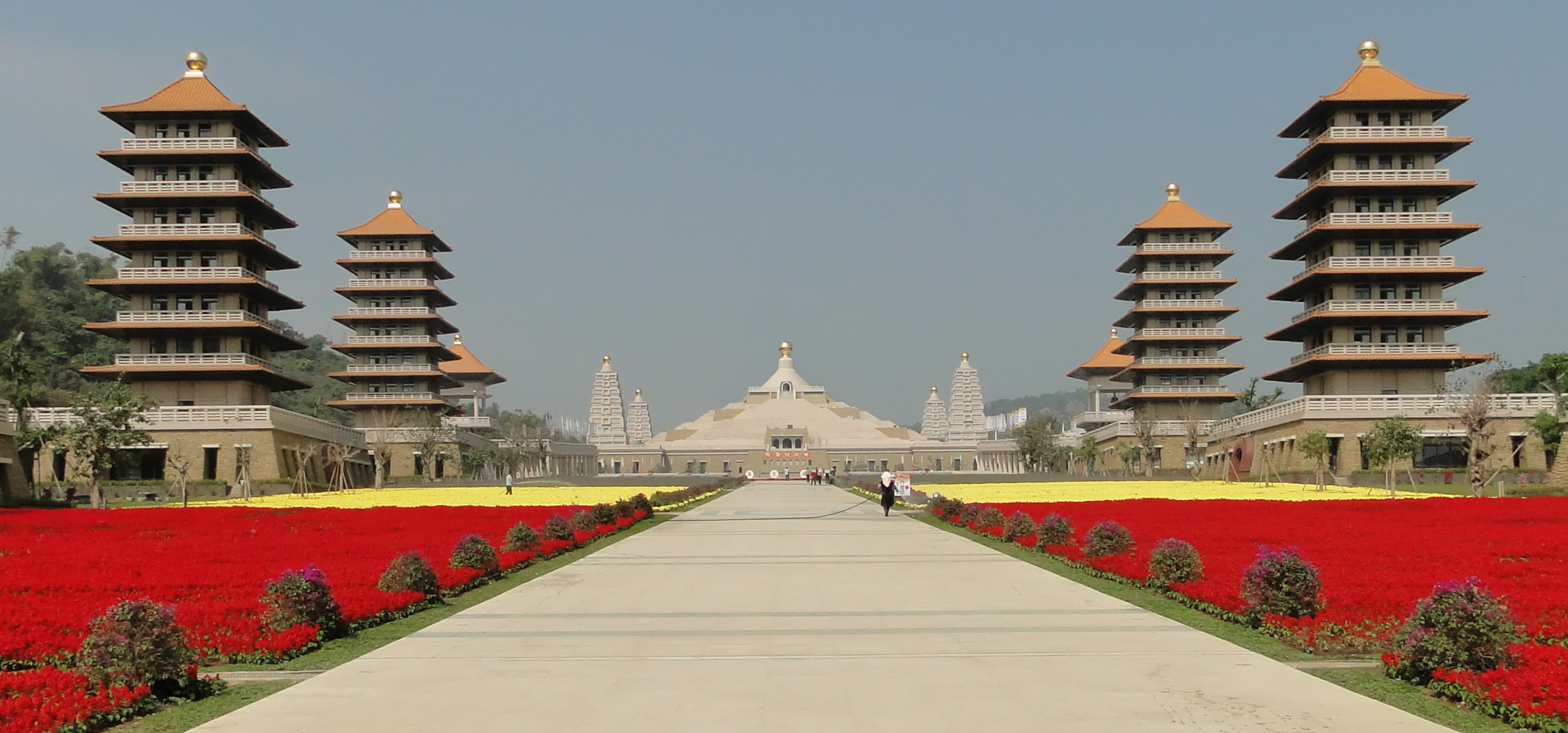 Fo Guang Shan Buddha Memorial Center, Taiwan